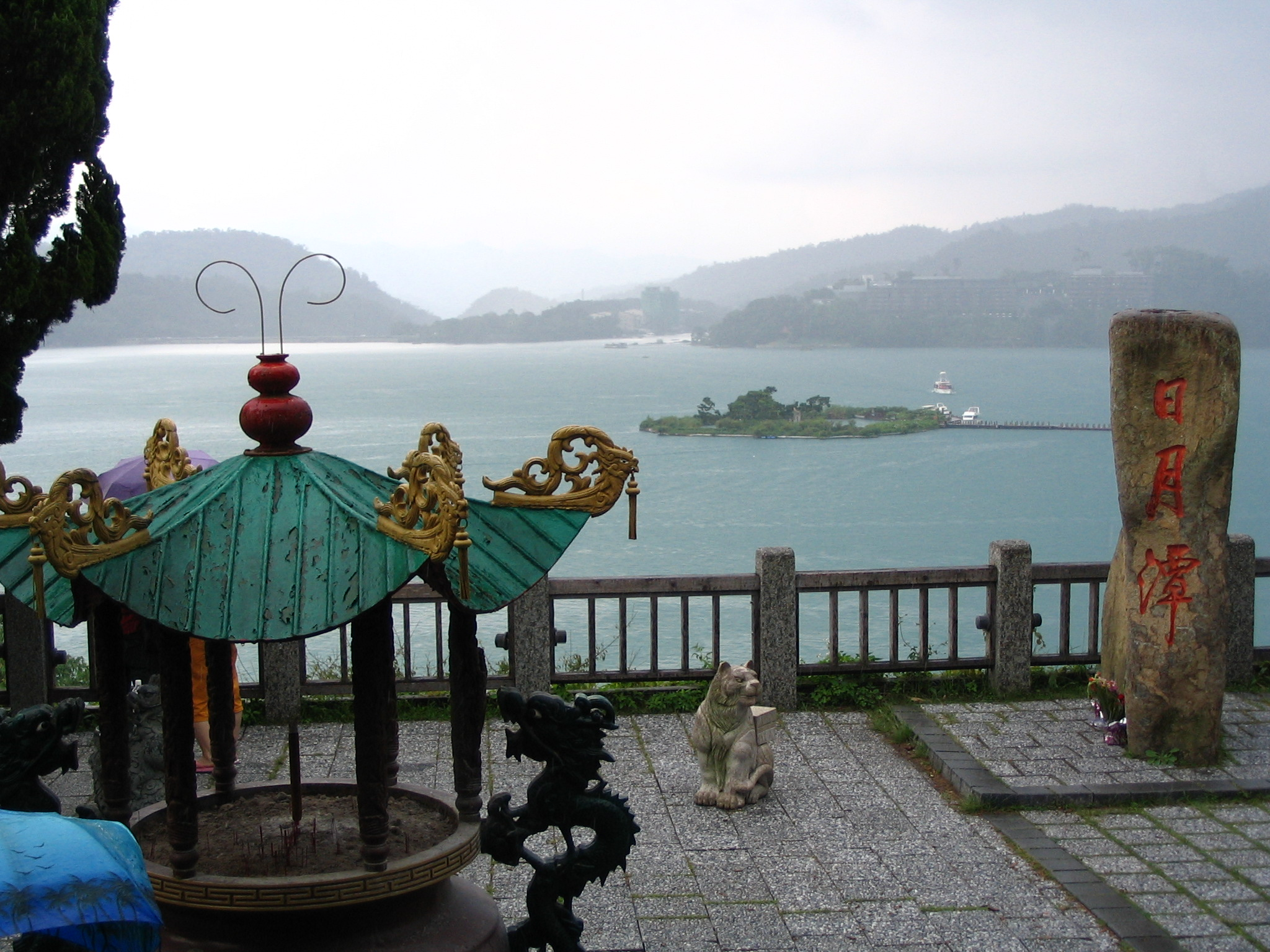 View on Sun Moon Lake